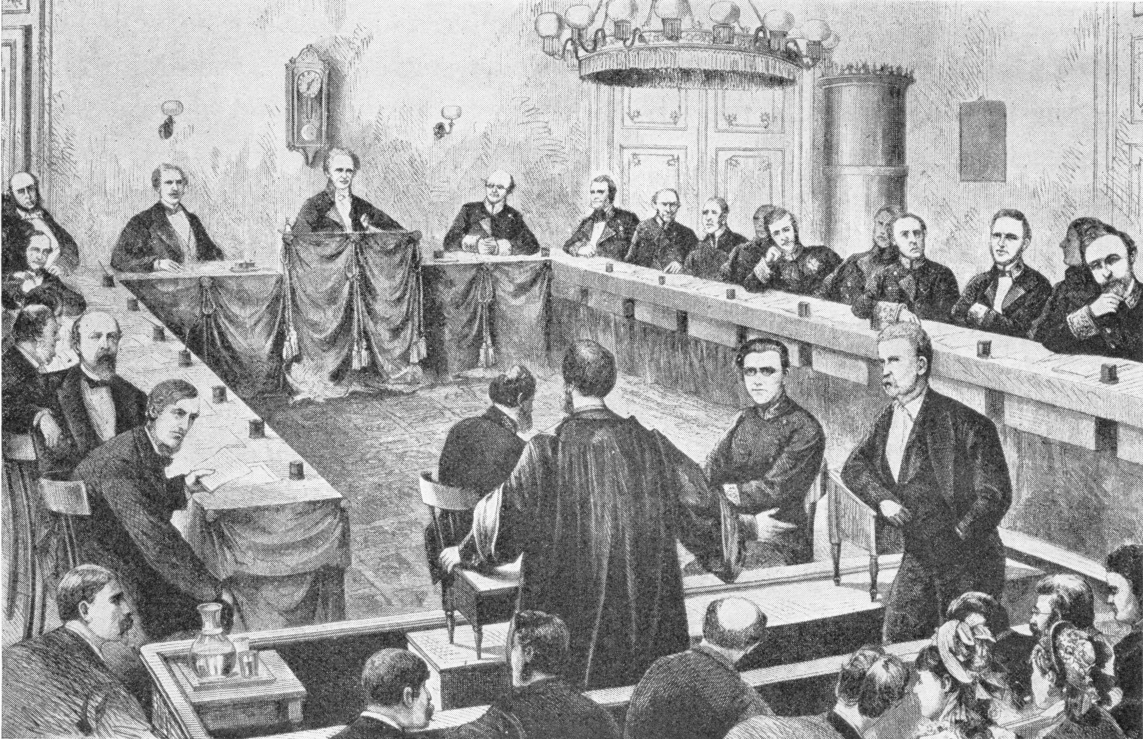 The Danish court Rigsretten in session in the Landsting Chamber, Christiansborg Palace, 1877. Contemporary image. The defence lawyer standing in the foreground with his back turned is A. Klubien. The prosecutor standing in the foreground, seen from the side, is Viggo Hørup.